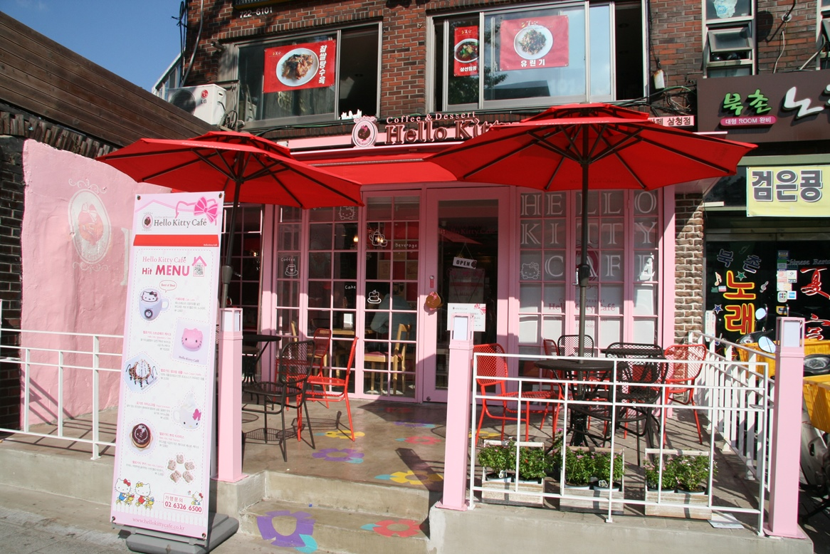 Hello Kitty cafe in Samcheong-dong, Jongno-gu in Seoul in 2012